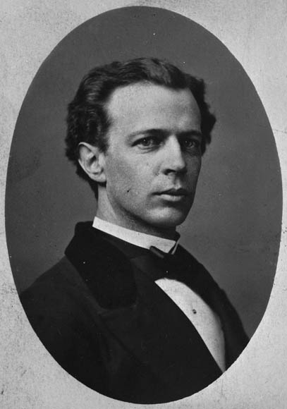 A photograph of Wilfrid Laurier.